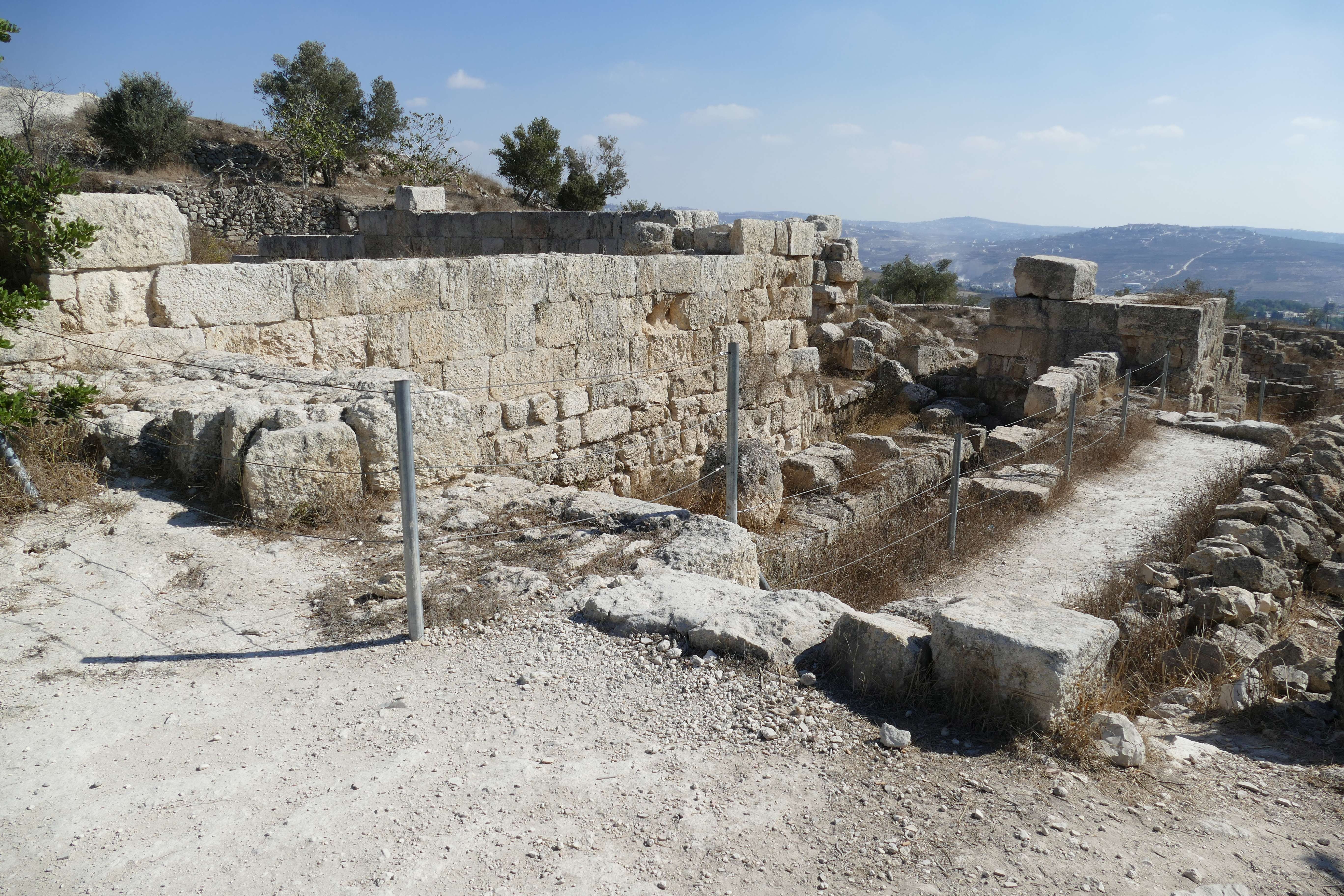 Ancient city of Samaria/Sebastia, adjacent to the village of Sebastia, West Bank.